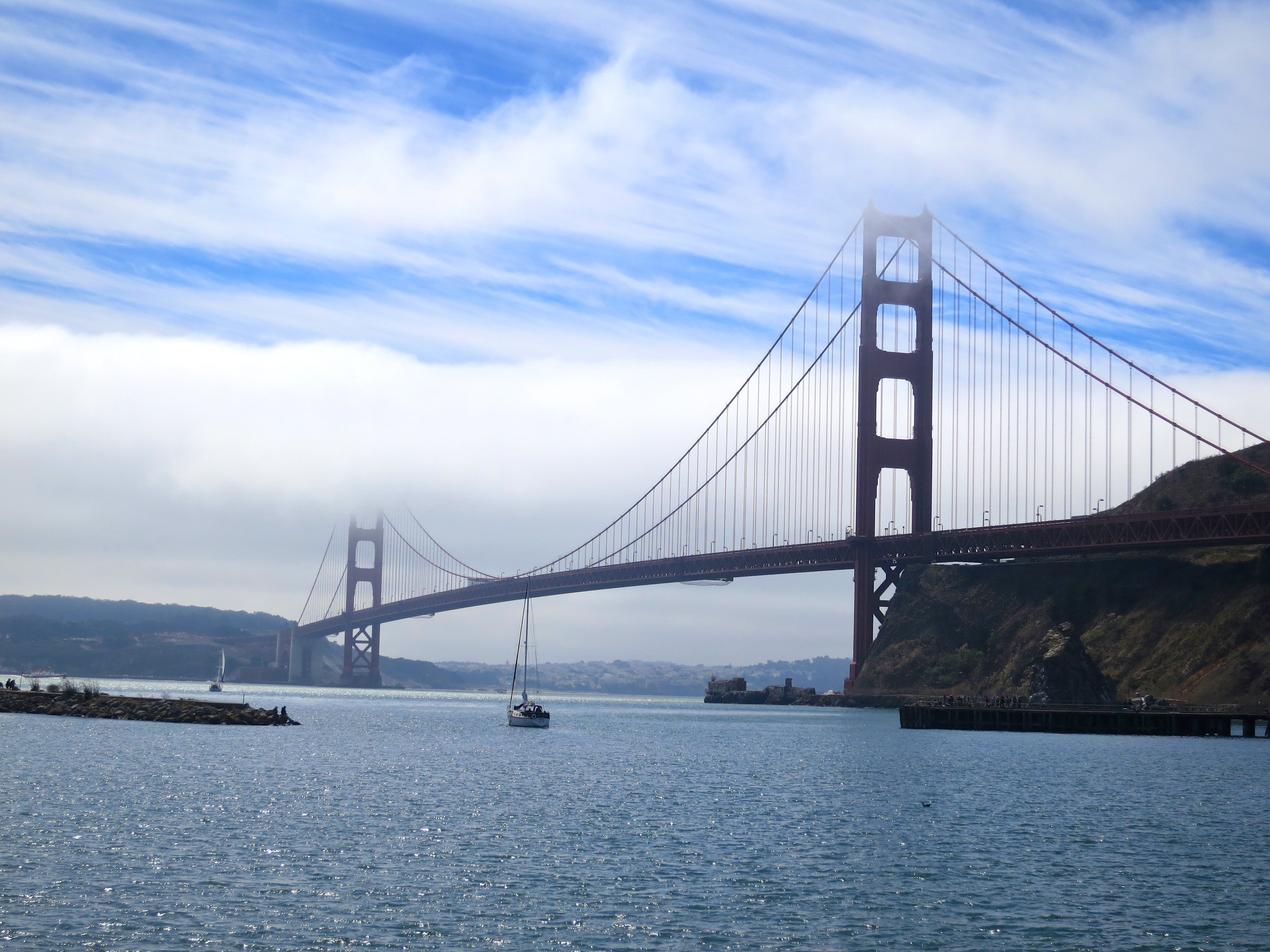 Forts Baker, Barry, and Cronkhite